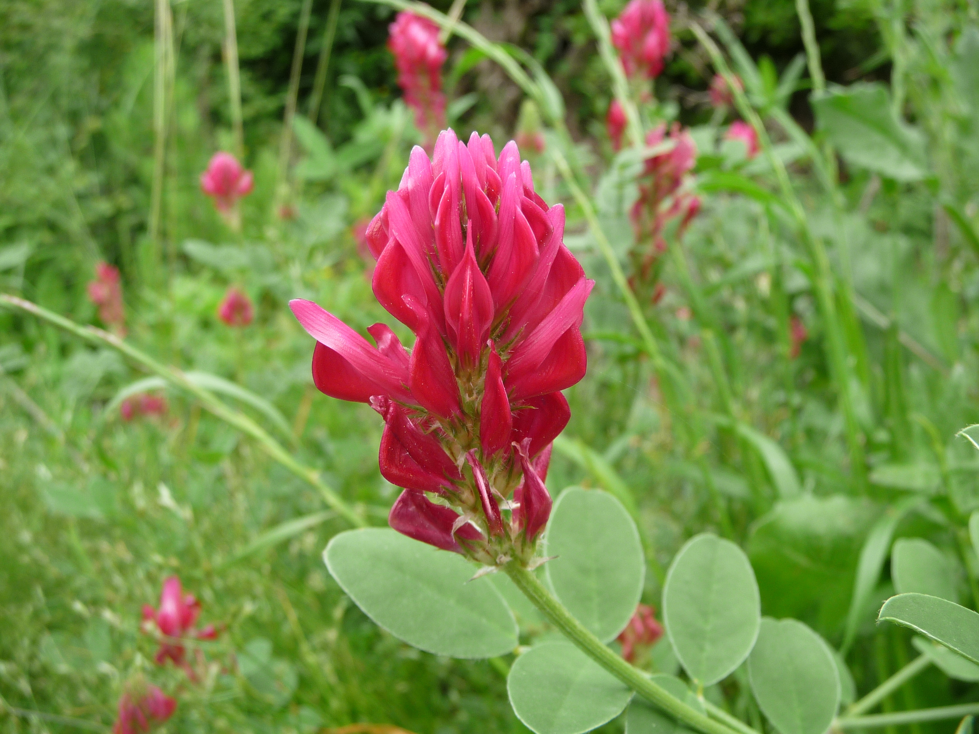 Hedysarum coronarium L., near Livorno, Tuscany, Italy